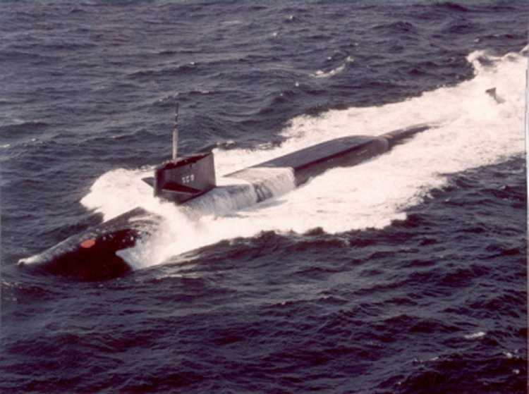 The U.S. Navy ballistic missile submarine USS Will Rogers (SSBN-659), underway on 15 February 1967.